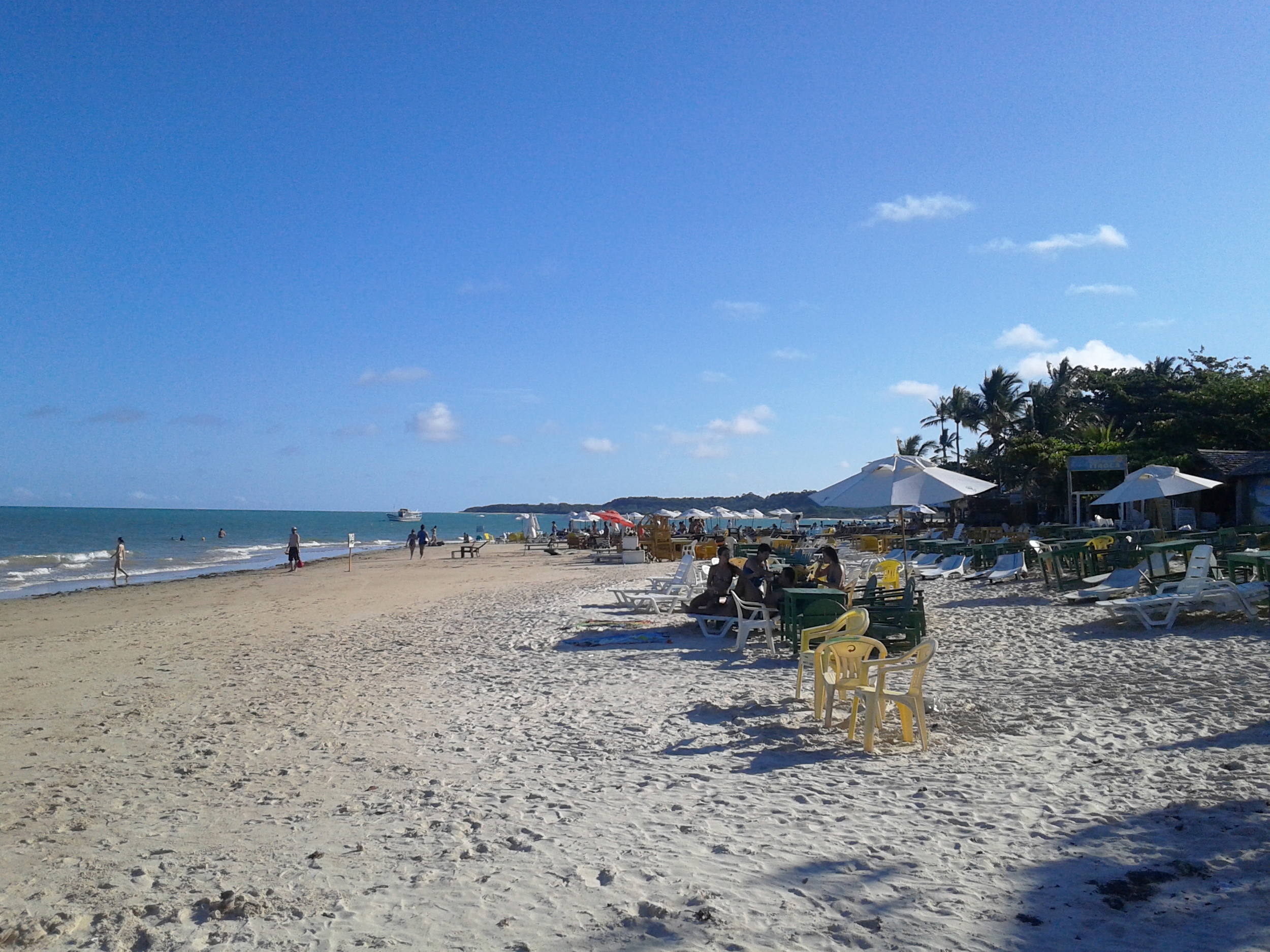 View of the Coqueiros beach in the Trancoso district, in Porto Seguro, Bahia, Brazil.